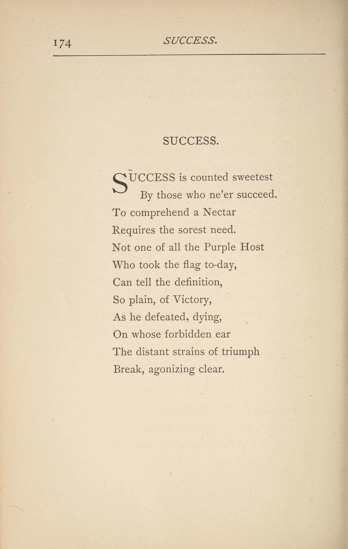 "Success" by Emily Dickinson, as published in A Masque of Poets, Boston: Roberts brothers, 1878. Edited by George Parsons Lathrop (1851-1898). The book collected several anonymous poems, including this one by Emily Dickinson. 72S-700, Houghton Library, Harvard University